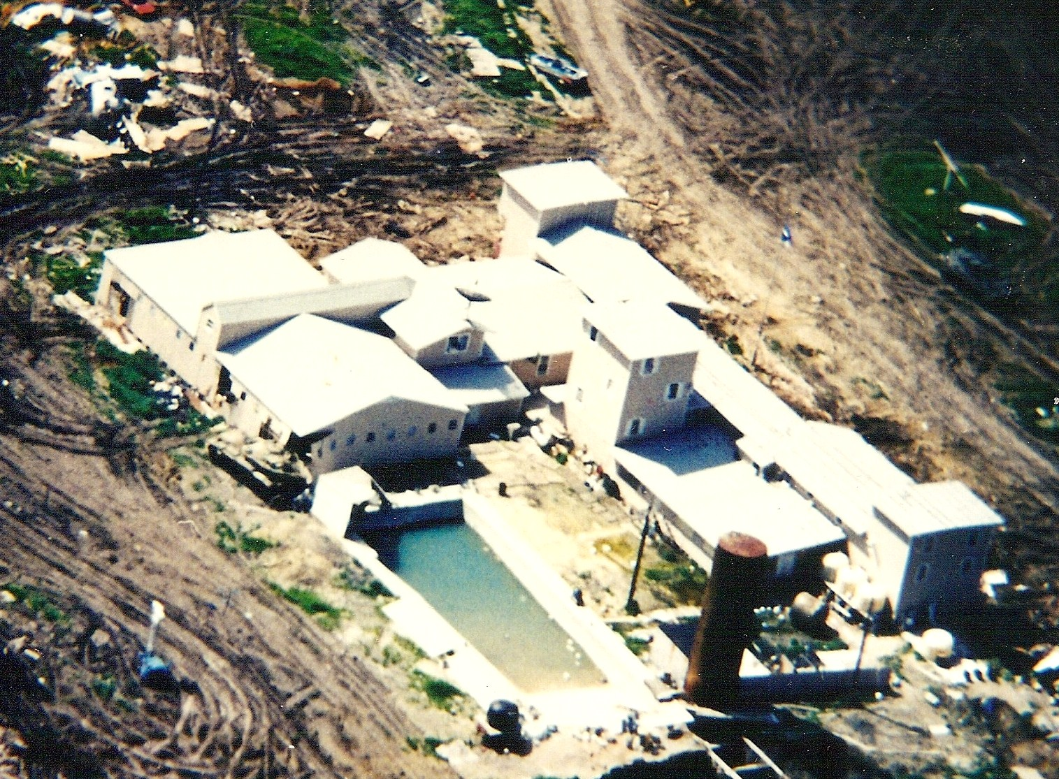 Tank enters back of the Mount Carmel gymnasium.